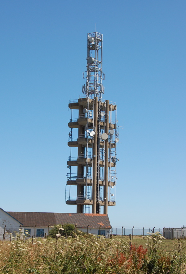 Tolsford Hill communication tower, Etchinghill, Kent, United Kingdom, Photographer: Alfred Gay